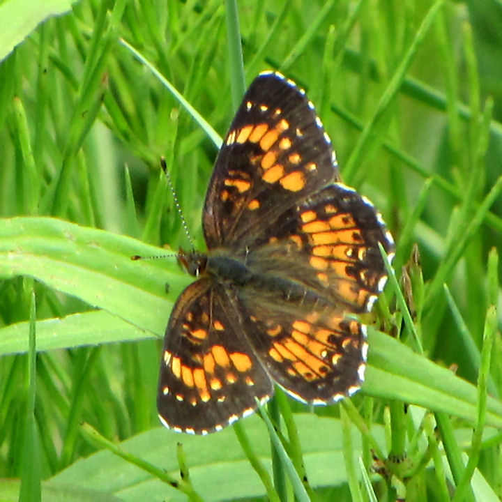 Harris's Checkerspot (Chlosyne harrisii), Ottawa, Ontario, Canada